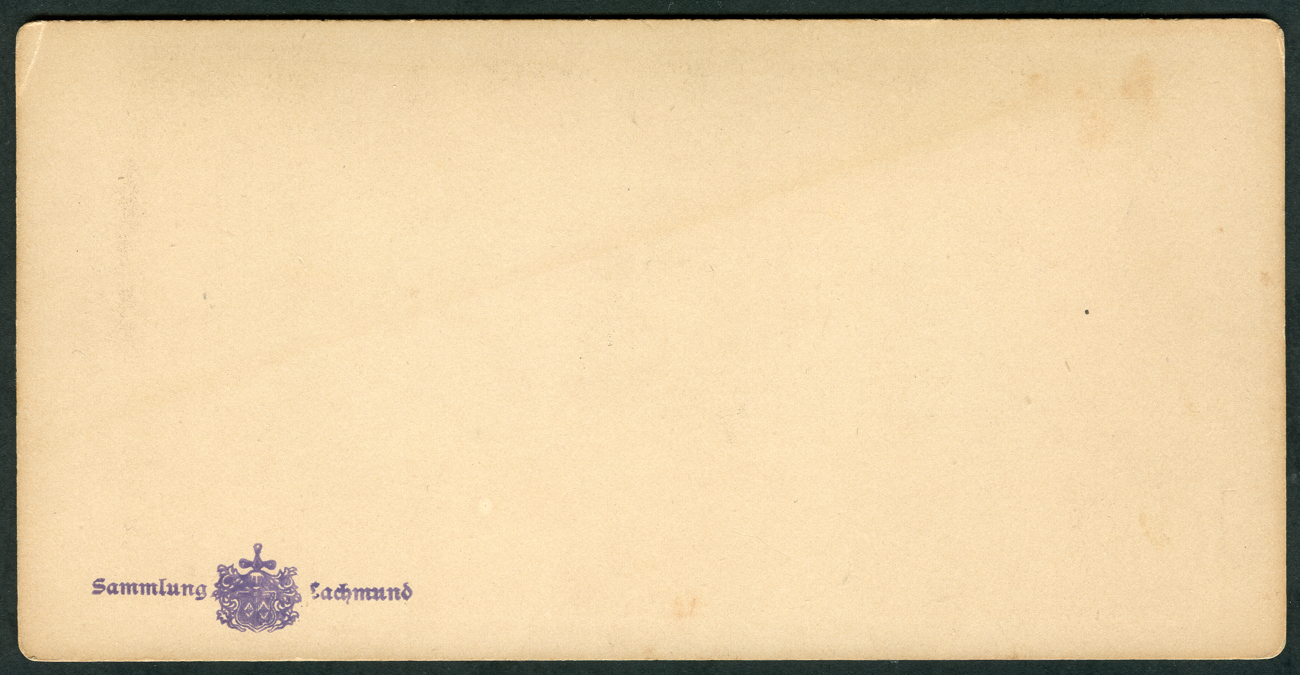 Stereoscopy only sold by F. Hamel